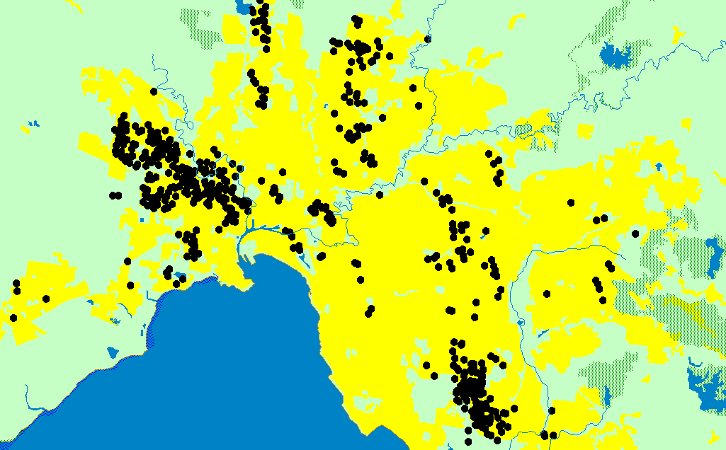 Vietnam-born residents in Melbourne, 2006 (one dot equals 100 such residents in a collection district)